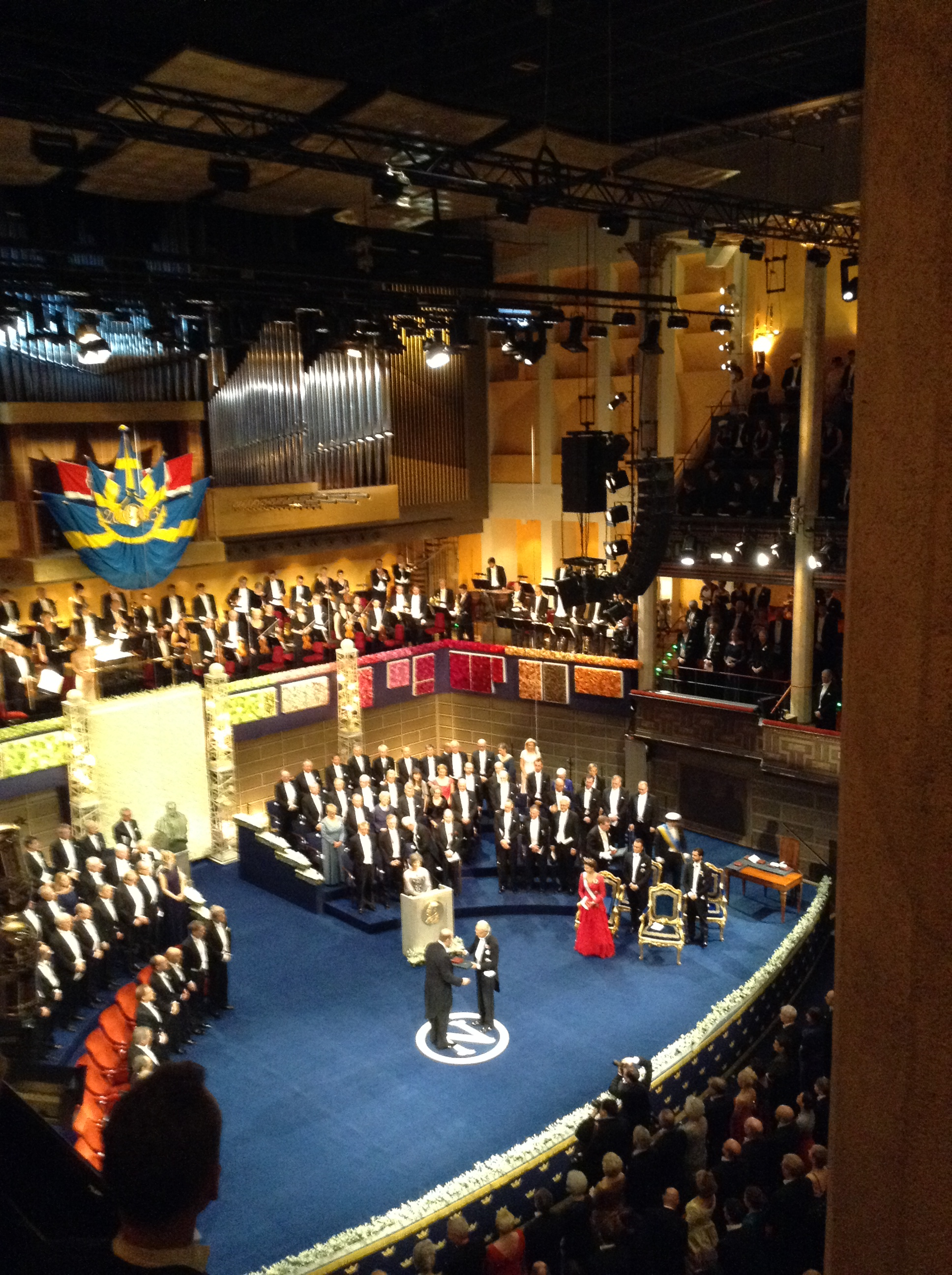 Nobel Prize ceremony 2013. James Rothman receved the Nobel Prize in medicine from king of Sweden Carl XVI Gustaf.